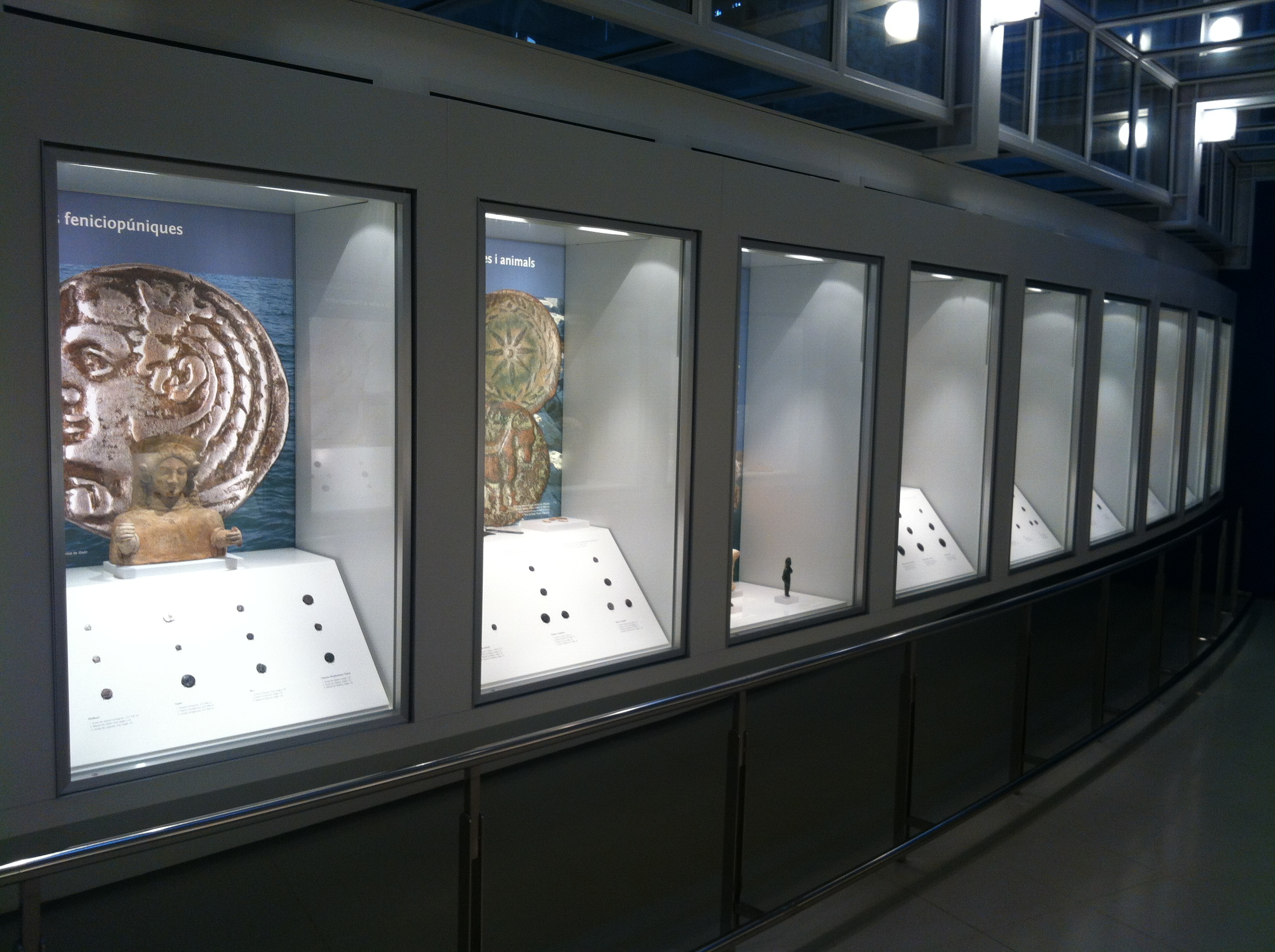 Numismatic collection conserved at MNAC in Barcelona.The collection of the Numismatic Cabinet of Catalonia, open to consultation by researchers, is formed by over 135,000 pieces. The principal numismatic series are represented here, with coins dating from the 6th century BC to the present day, as well as medals, valuable paper, tokens, monetary weights, scales, dies, decorations and insignia. Of all this wealth of material, the most important and emblematic series are without doubt the Catalan ones. They include extremely rare pieces, such as the first silver coins ever struck in the Iberian Peninsula by the Greeks of Emporion, the issues of the Catalan counties, those of the 17th-century Reapers’ War, those of the Napoleonic invasion and the bank notes issued by local councils in Catalonia during the Civil War of 1936-1939